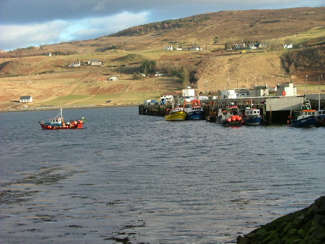 Uig Pier. Used by Caledonian MacBrayne ferries and a number of local fishing boats.